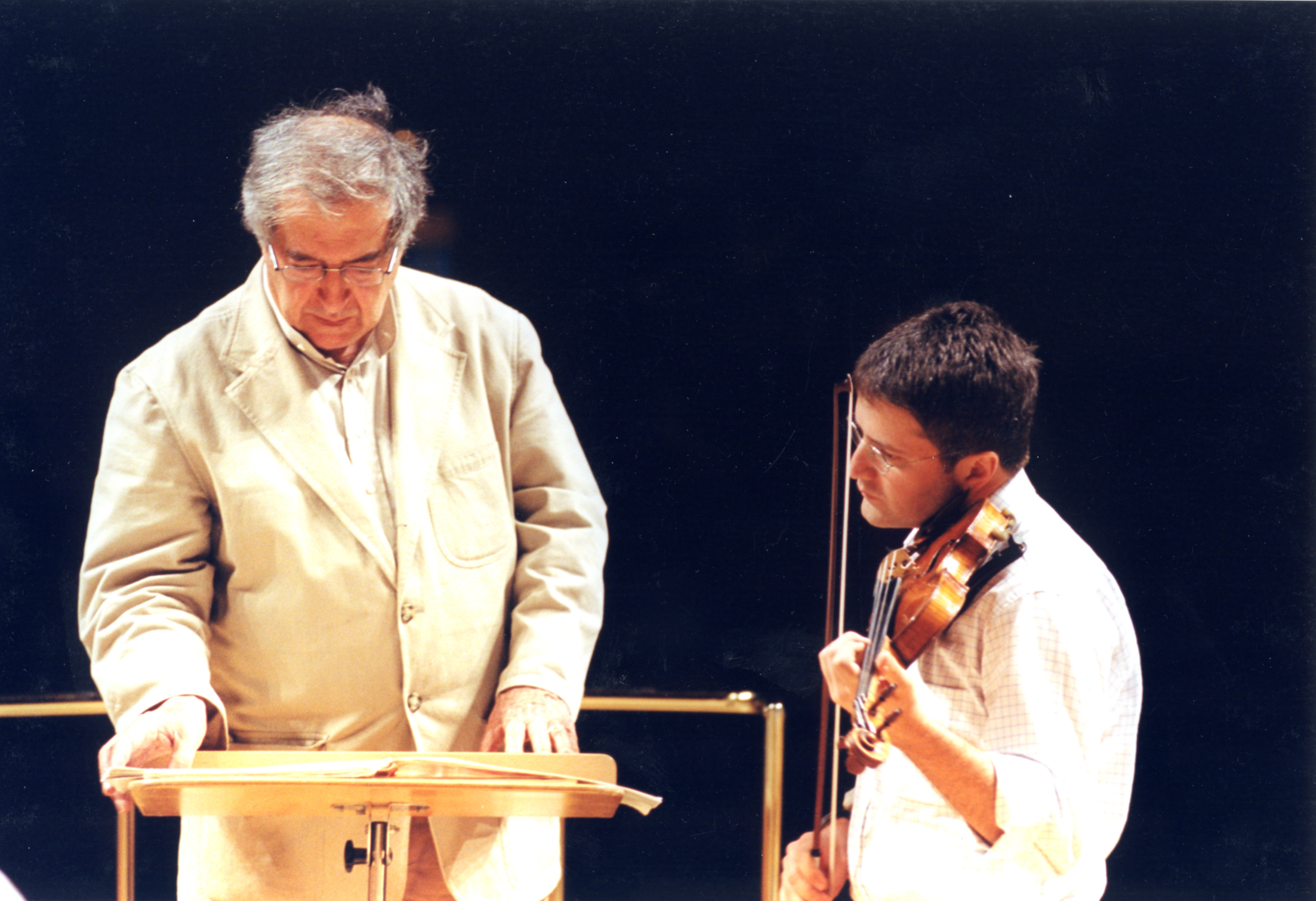 Composer Luciano Berio and violinist Francesco D'Orazio